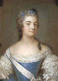 Countess Hedvig Catharina von Fersen, née De a Gardie (1732-1800)